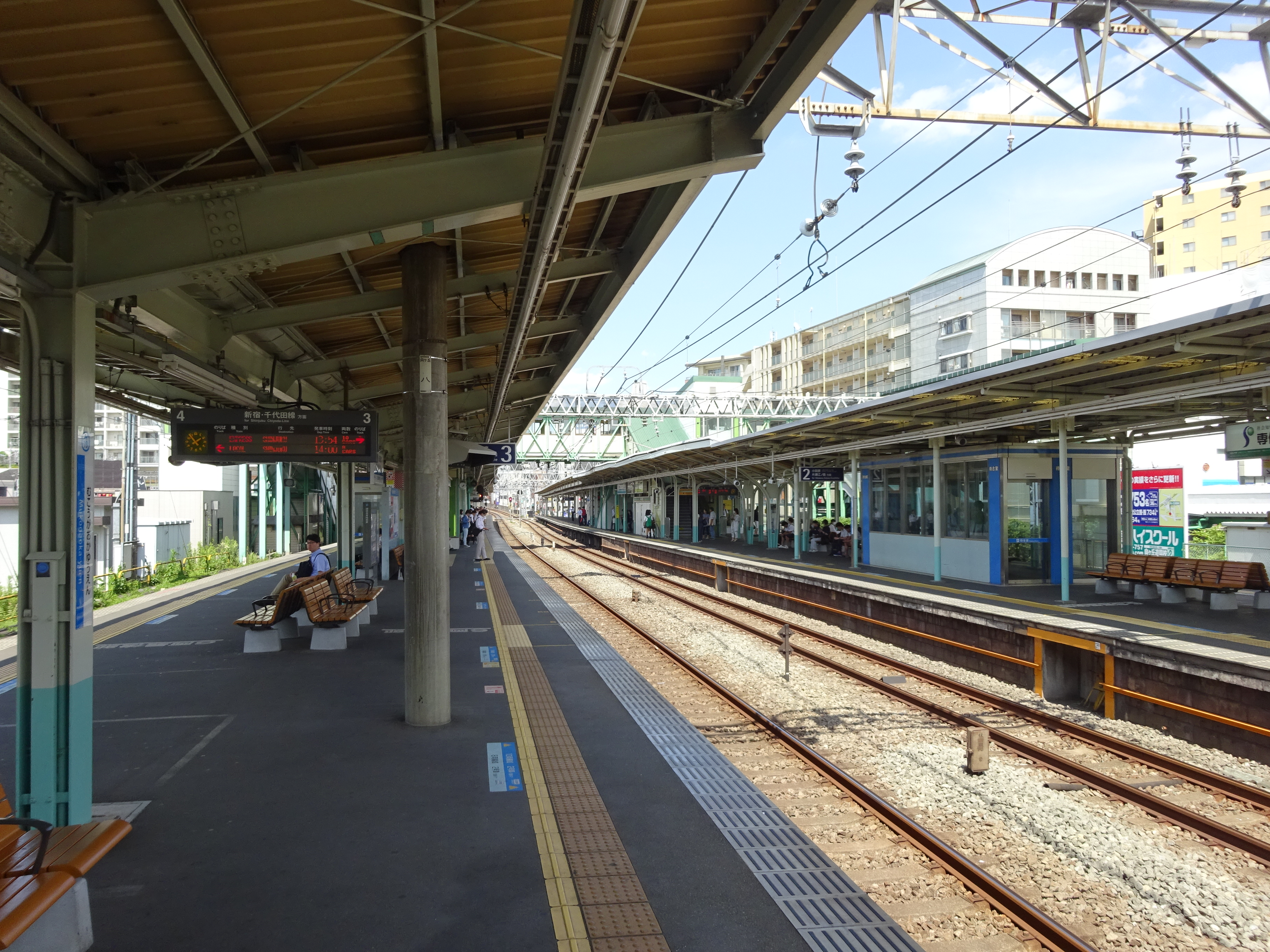 Platforms of Mukōgaoka-Yūen Station